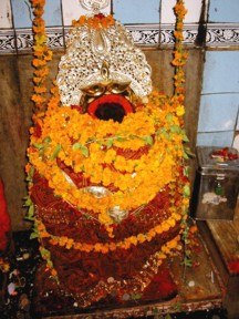 Great pious Shrine of MA MAHAKALI at Kaali Khoh, the second point of Trikona Parikrama. Situated 10 kms away from the city Mirzapur.